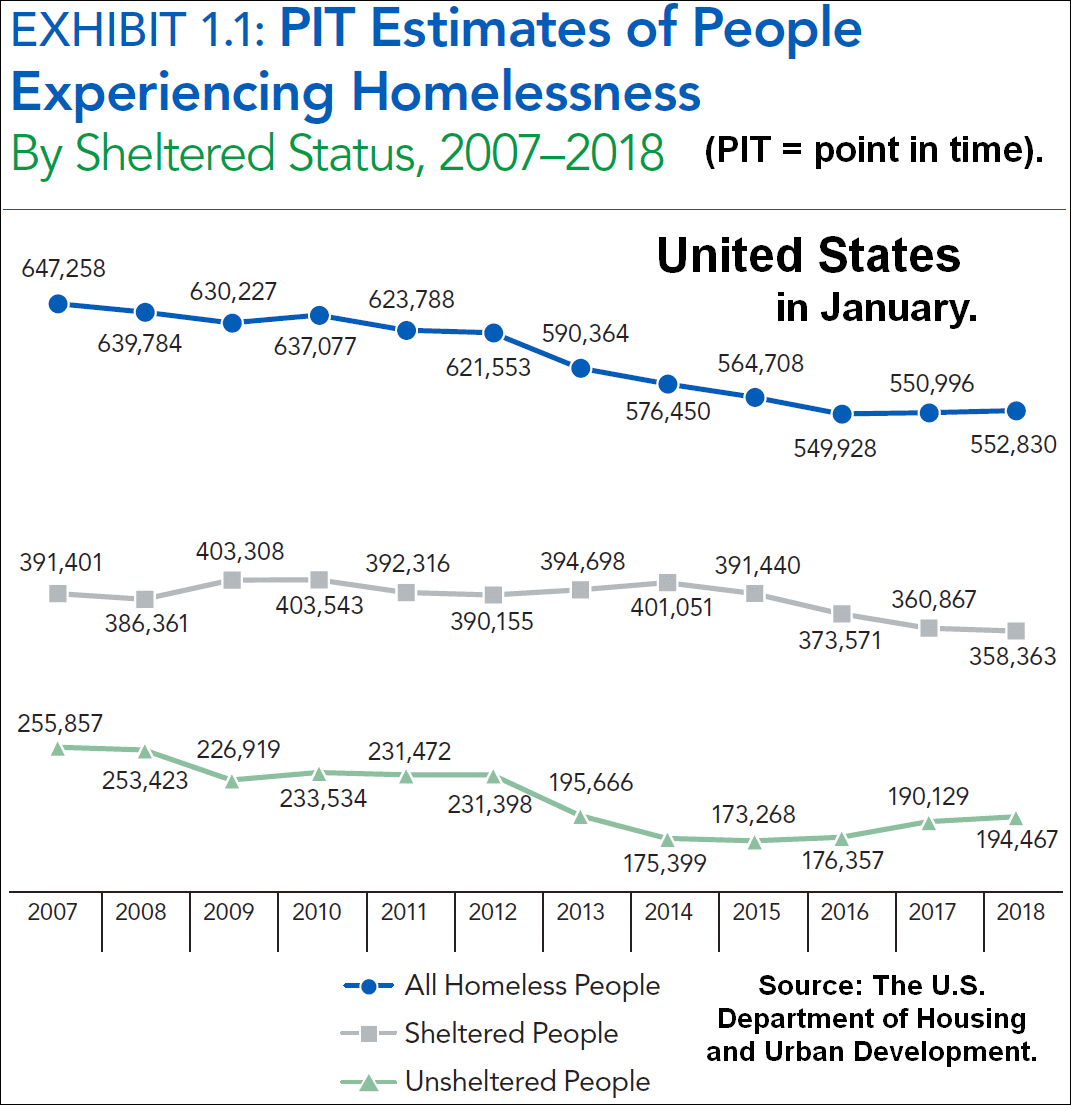 US yearly timeline of people experiencing homelessness in January.